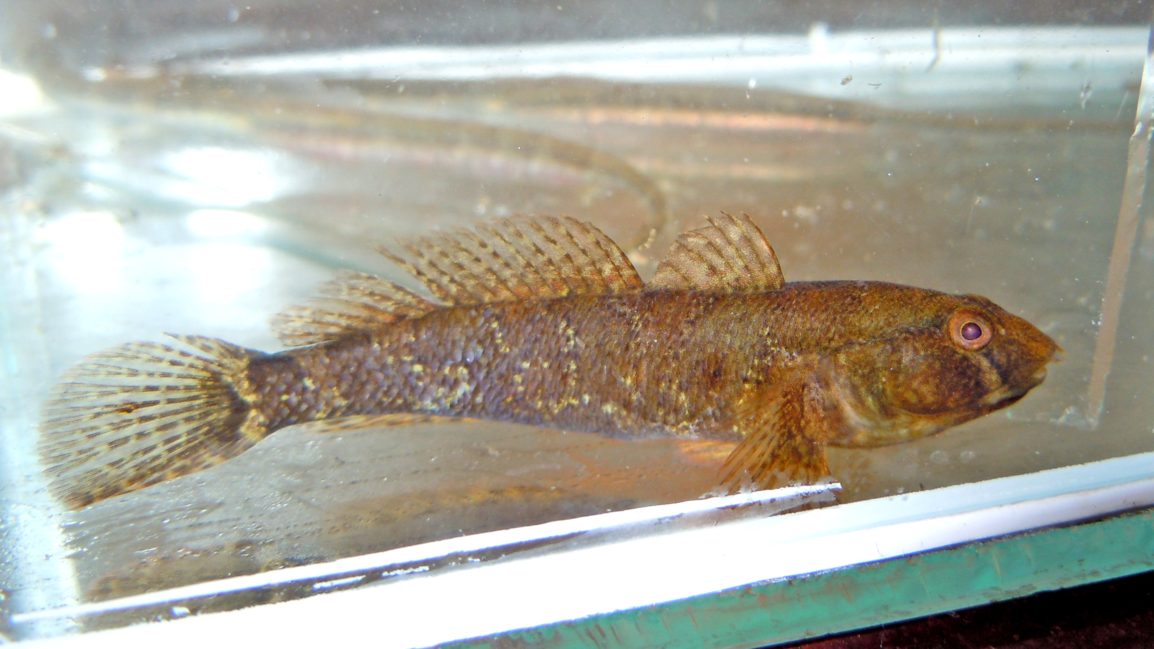 Marine tubenose goby (Proterorhinus marmoratus) from the Gulf of Odessa, Ukraine